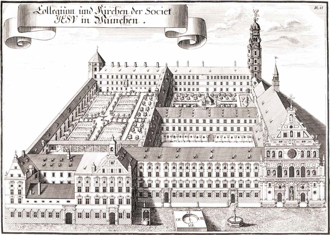 Engraving of the Jesuit College and the Church of St. Michael (Wilhelminum) by Michael Wening in Topographia Bavariae about 1700